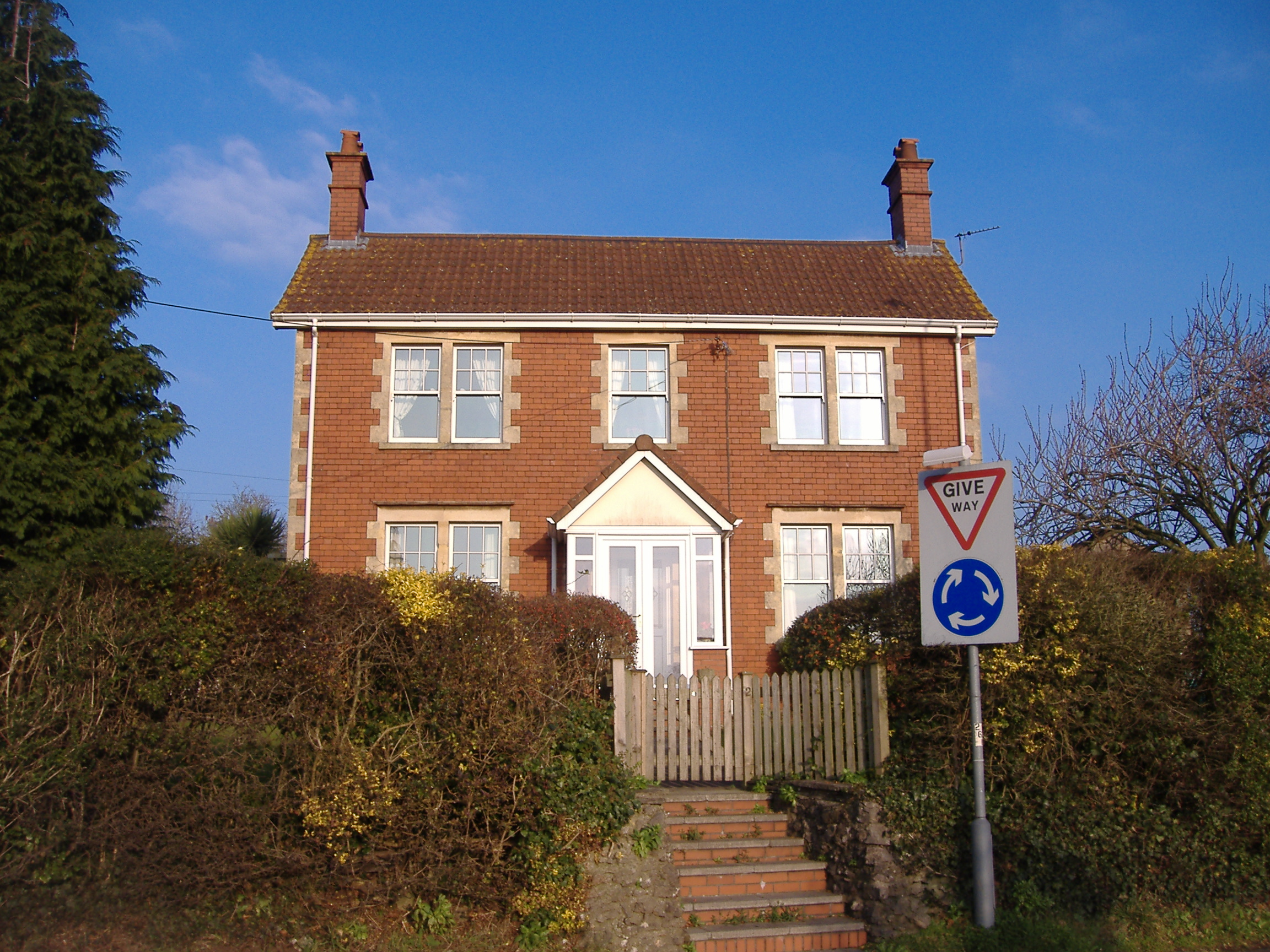 A rather nice house in Flax Bourton.